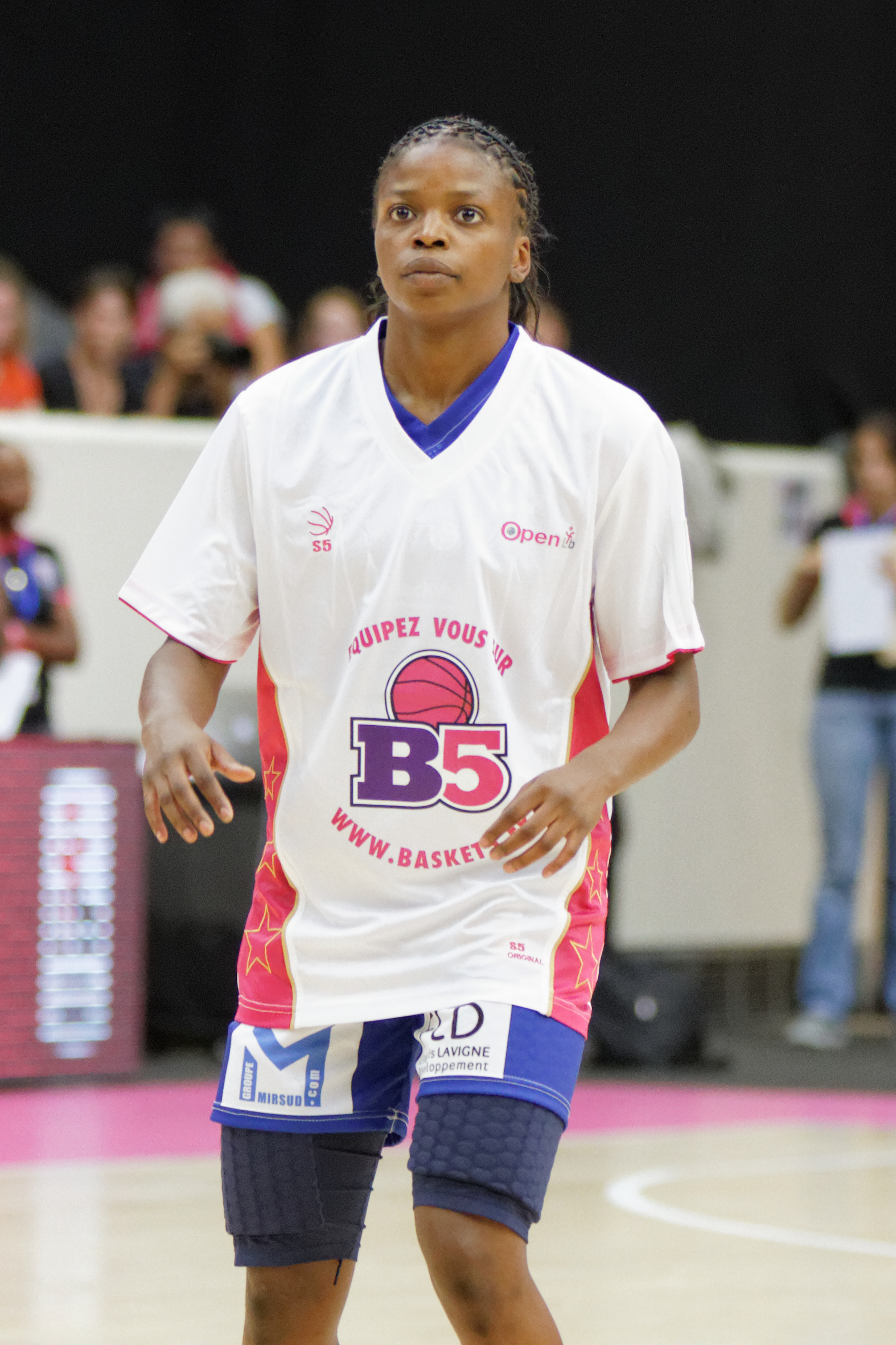 Open LFB, Villeneuve d'Ascq-Basket Landes, October 5th, 2013.